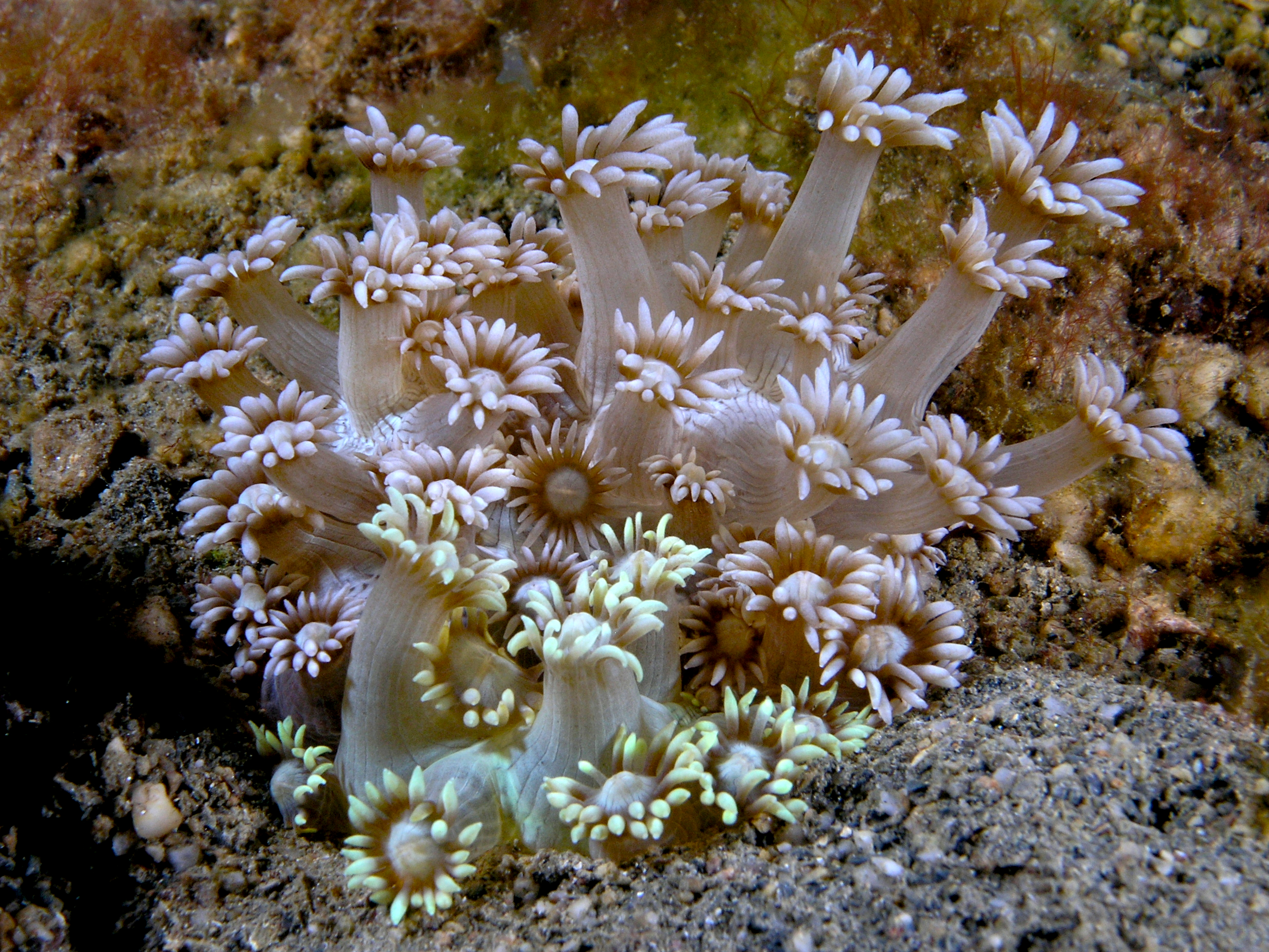 Goniopora djiboutiensis (Soft coral)